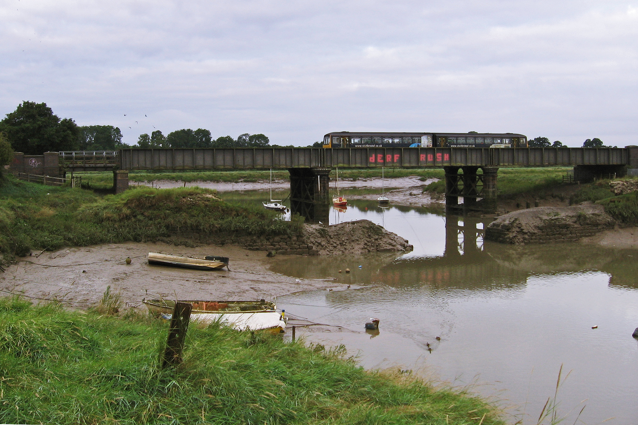 The remains of the dock wall and the Severn Beach line crossing the Trym at Sea Mills, Bristol ,UK.